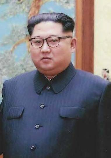 Photos of Secretary of State Pompeo in North Korea. Secretary Pompeo will do an excellent job helping President Trump lead our efforts to denuclearize the Korean Peninsula.